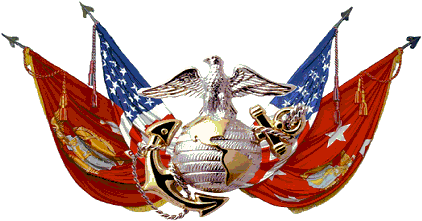 A rendition of the emblem on the flag of the U.S. Marine Corps (caption text from en.wikipedia as of 2008-09-06)